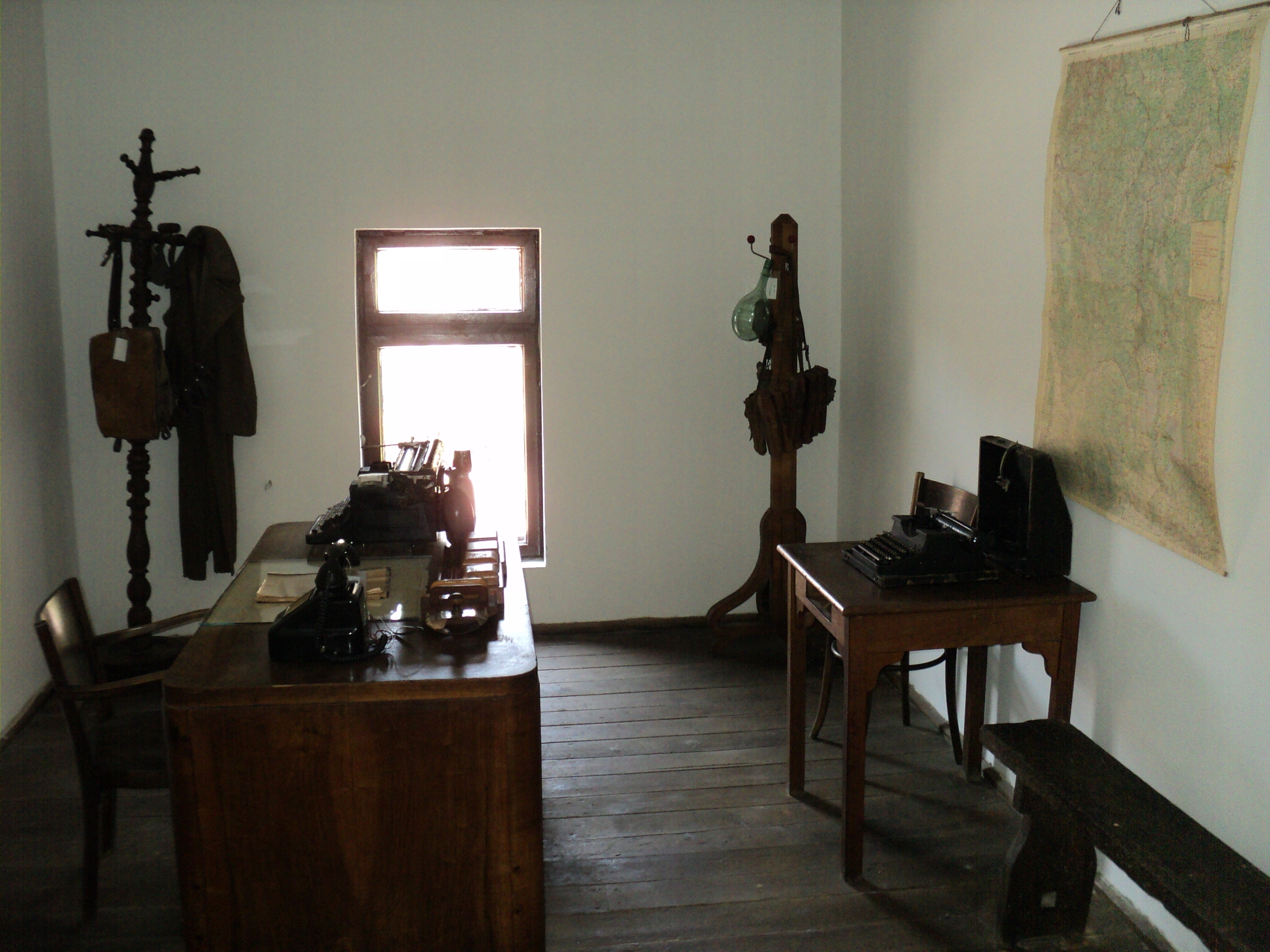 The room in the museum in which was operating Mihailo Apostolski, commander of the Main headquarters of the People's liberation army of Macedonia, while Kičevo was liberated during September and October of 1943.